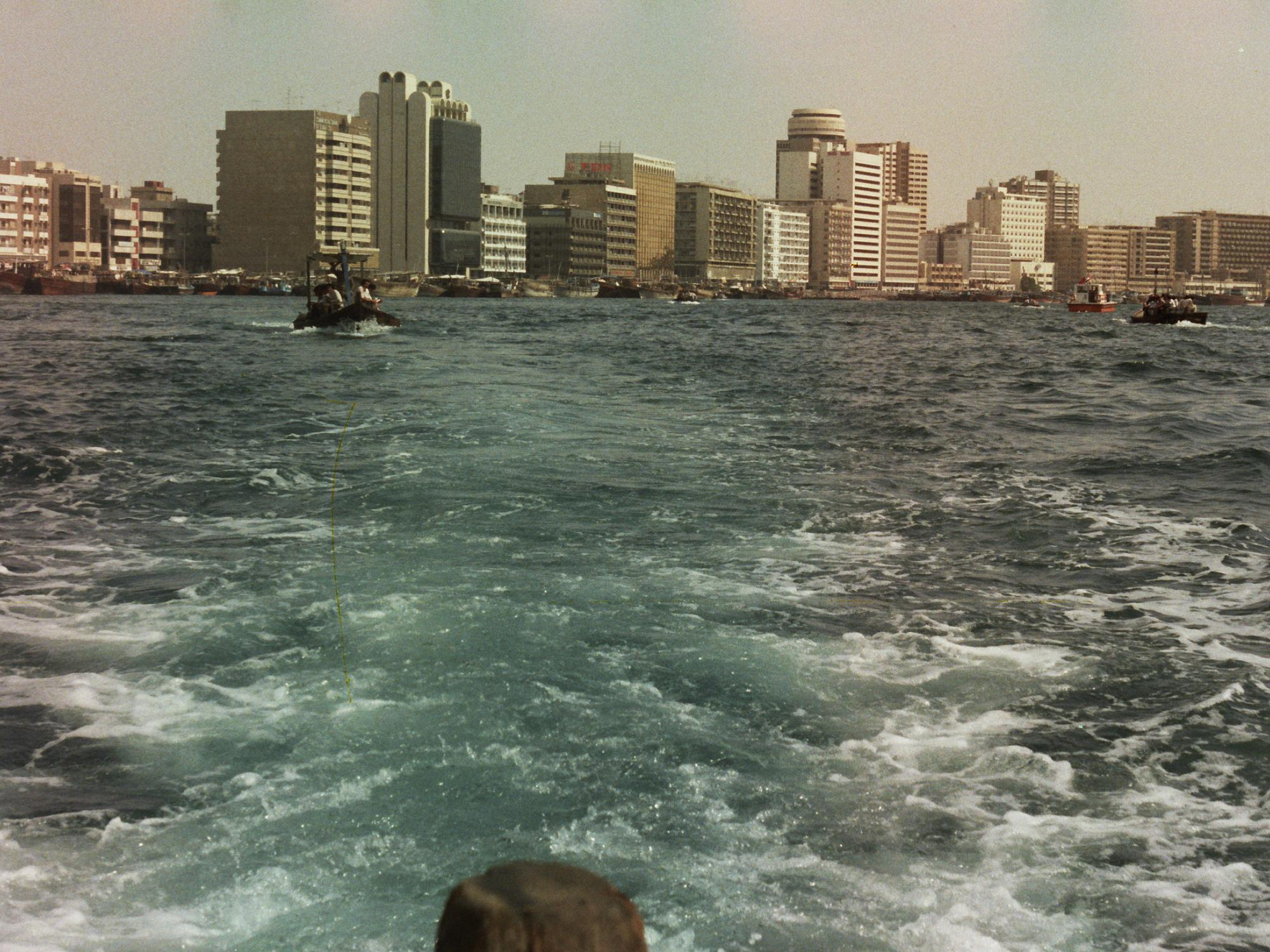 Skyline of Dubai at the Chess Olympiad 1986, Photographer Gerhard Hund.